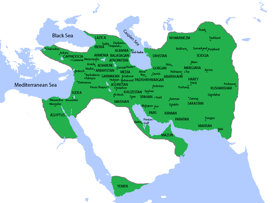 Map of the Sassanid Empire.